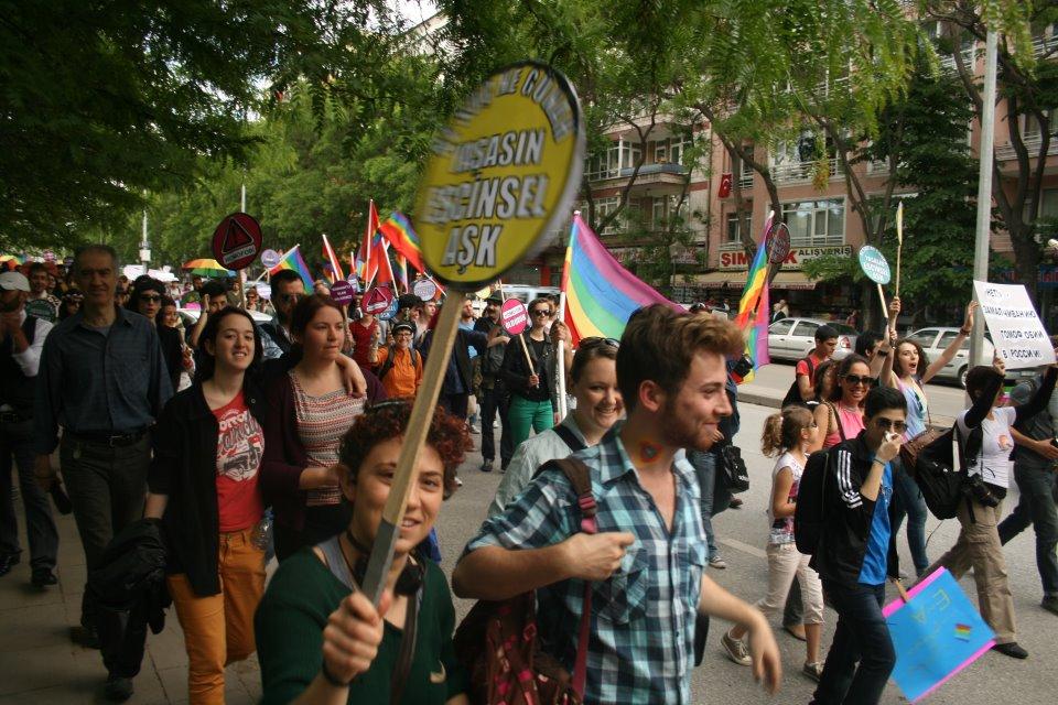 20 May 2012 “Homofobi ve Transfobi Karşıtı Yürüyüş” (Homofobia and Transfobia Square, Ankara.